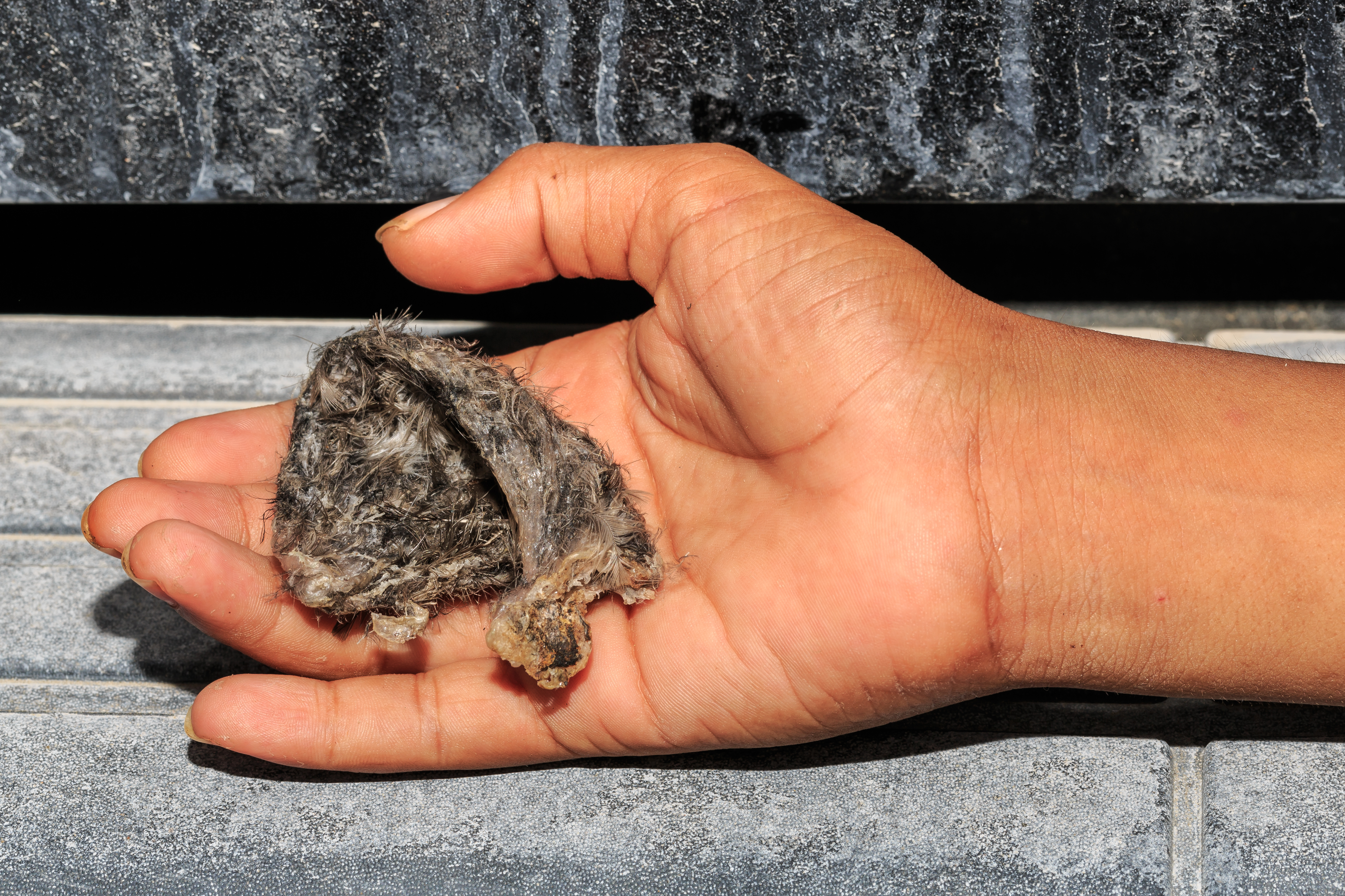 Kg Madai, Sabah: Bird nest from a black-nest swiftlet (Aerodramus maximus) of the Madai cave)